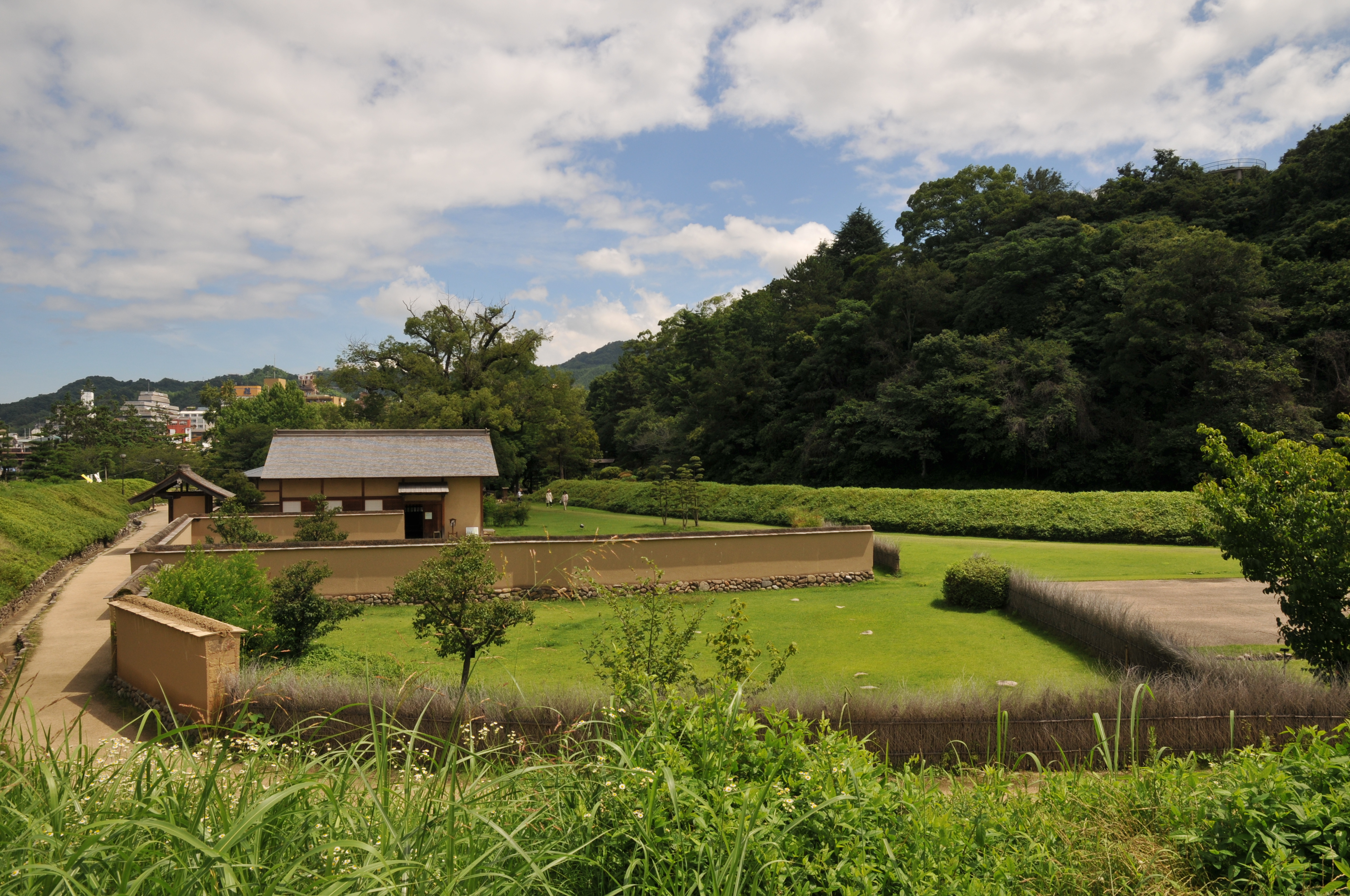 Restored samurai Yashiki and Hill, Yuzuki-jō